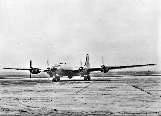 Boeing F-13 "Superfortress", reconnaissance version of the B-29 bomber.